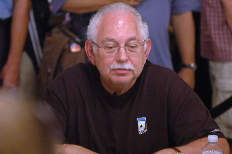 Lyle Berman in 2006 World Series of Poker at Rio, Las Vegas.